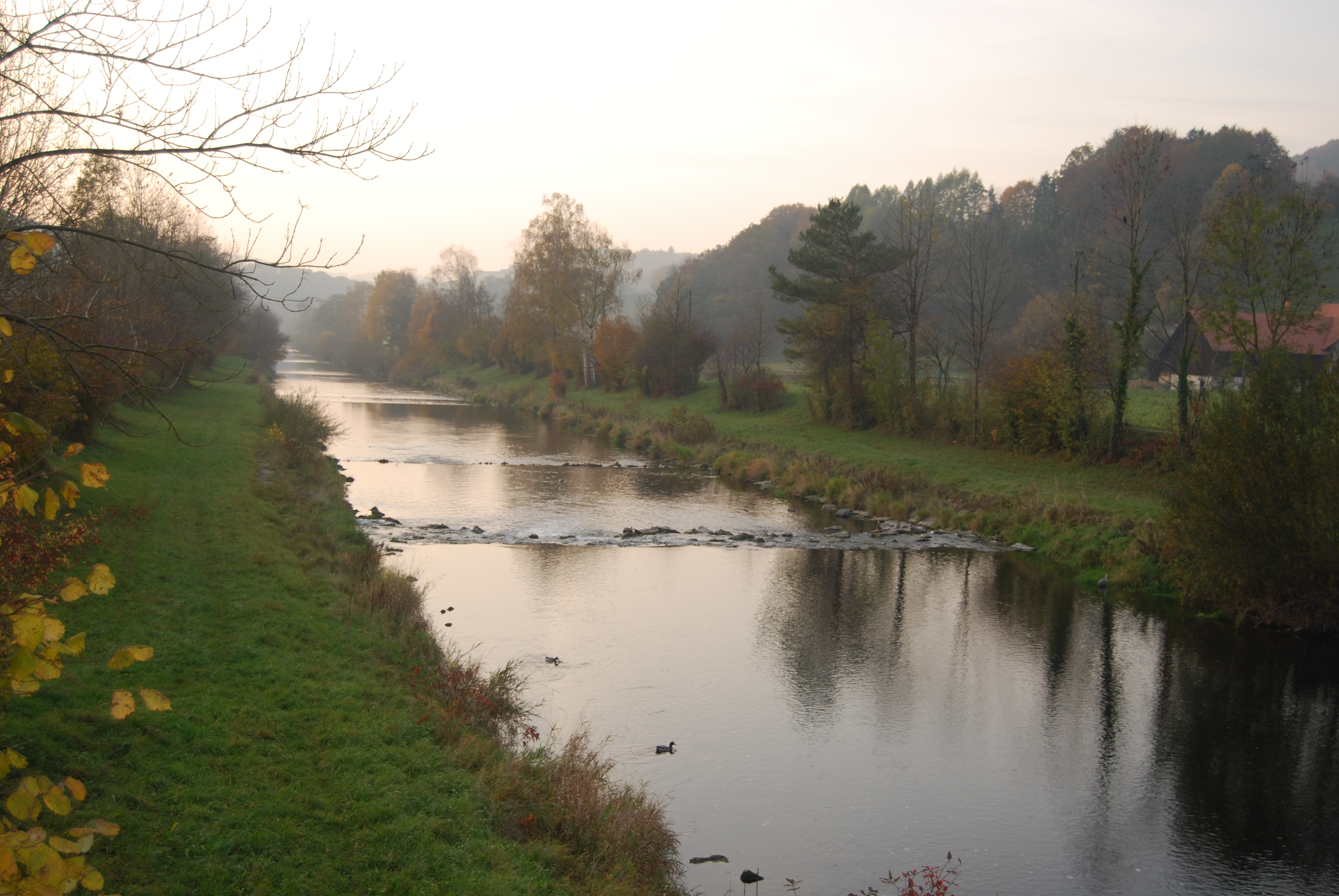 River Töss between Pfungen and Dättlikon, canton of Zürich, SwitzerlandEsperanto: Rivero Töss inter Pfungen kaj Dättlikon, Kantono Zuriko, Svislando